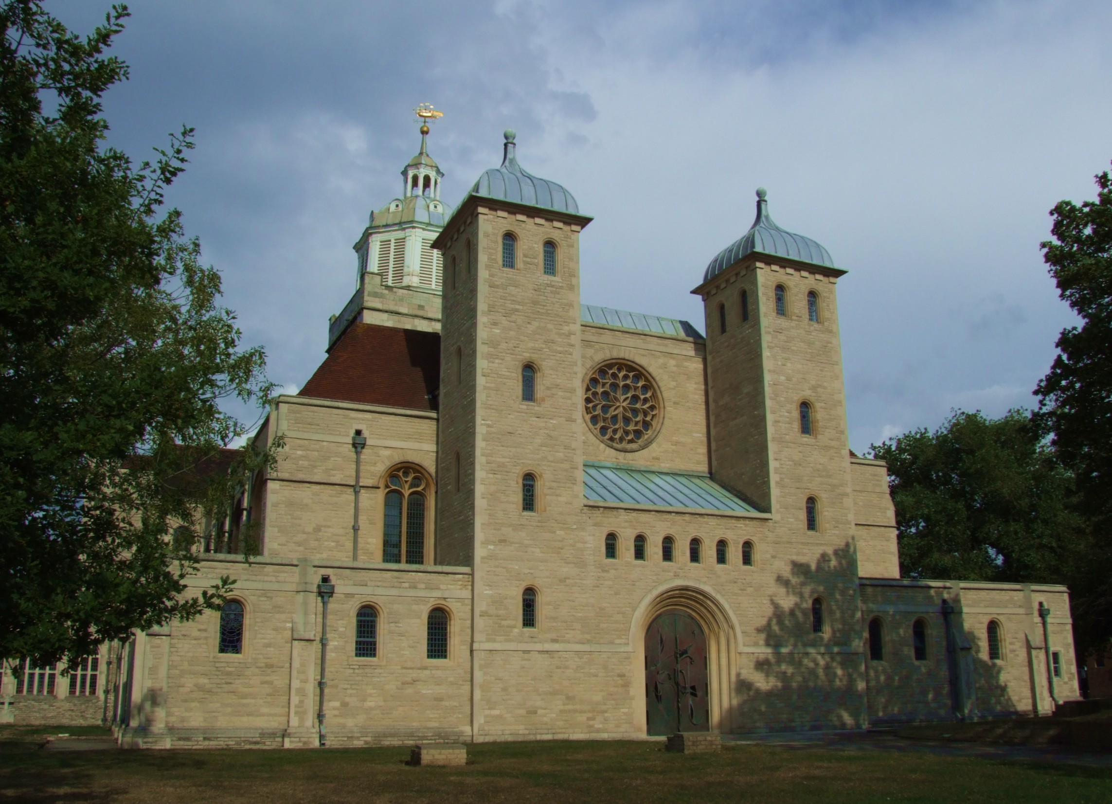 Cathedral Church of St Thomas of Canterbury, Portsmouth, England, United-Kingdom